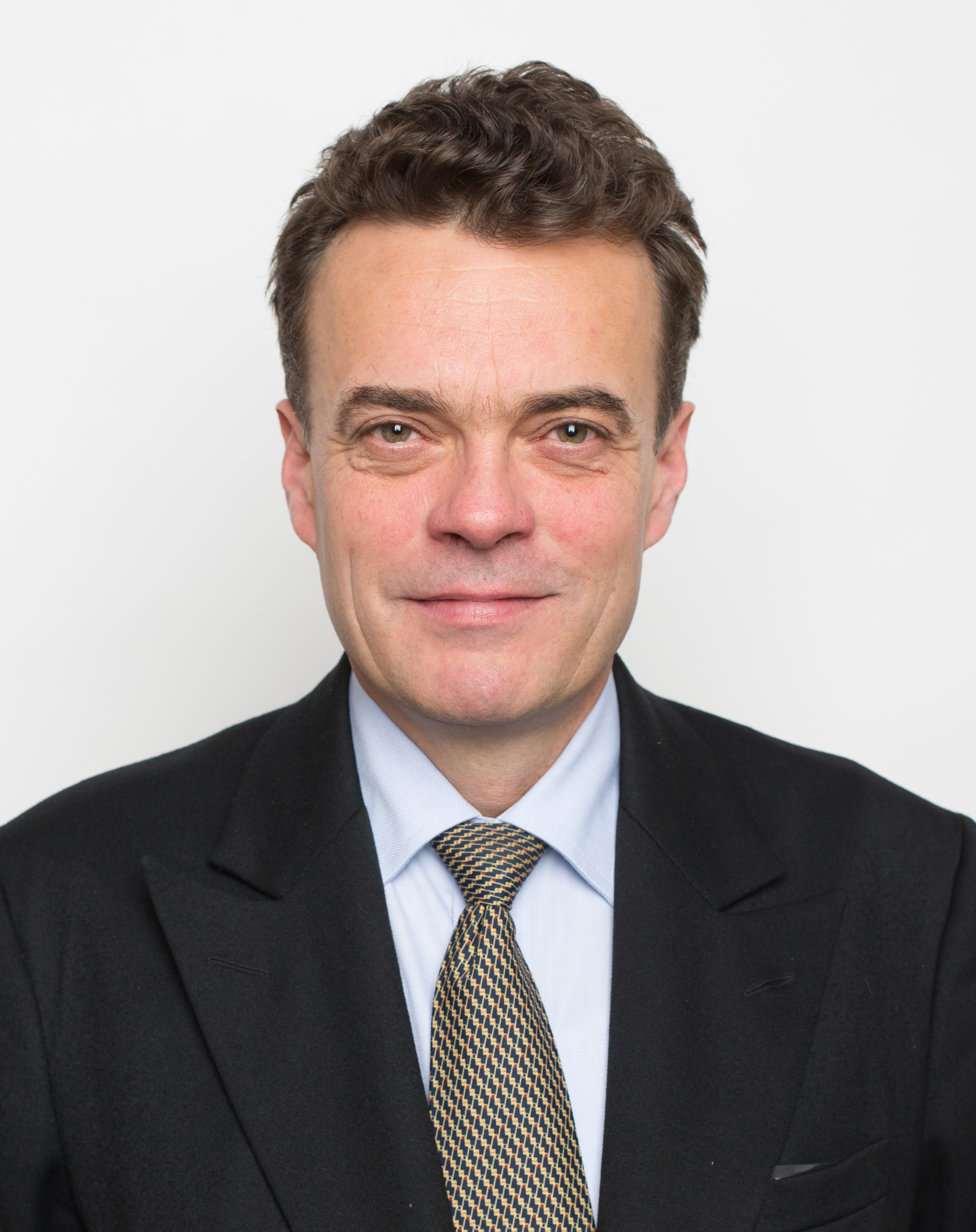 Ing. Tomáš Czernin, from 2016 member of the Senate of the Parliament of the Czech Republic